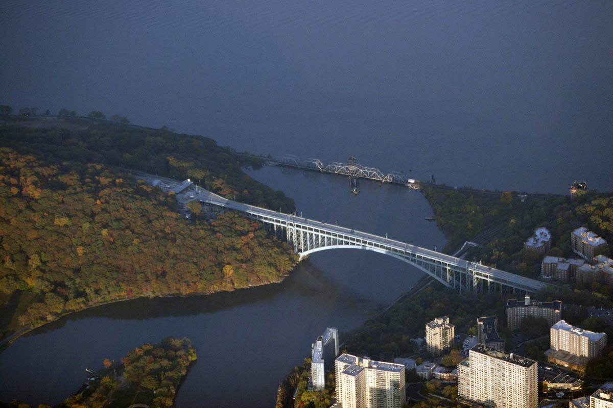 November 2005 aerial view of Henry Hudson Bridge. The bridge, connecting the northern tip of Manhattan to the Riverdale section of the Bronx, turns 75 on Monday, Dec. 12th. The Henry Hudson, at 800-feet, was the world's longest plate-girder, fixed arch bridge when it opened in December 1936. Photo courtesy of MTA Bridges and Tunnels Special Archive. Left the Inwood Hill Park, behind the bridge is the Empire Connection railroad line.